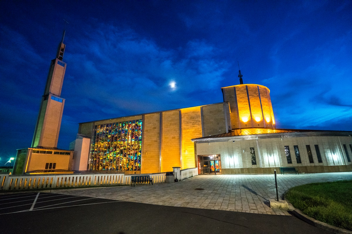 Shrine of Our Lady of Czestochowa (Doylestown, PA)